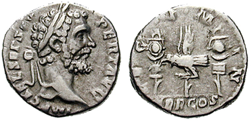 Septimius Severus denarius. 193 AD. IMP CAE L SEP SEV PERT AVG, laureate head right LEG I MIN, TR P COS in exergue, legionary eagle between two standards. RSC 259. Coin issued to celebrate Legio I Minervia.